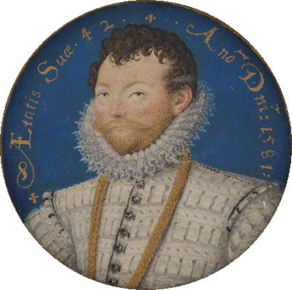 Portrait of Sir Francis Drake (1540-1596)